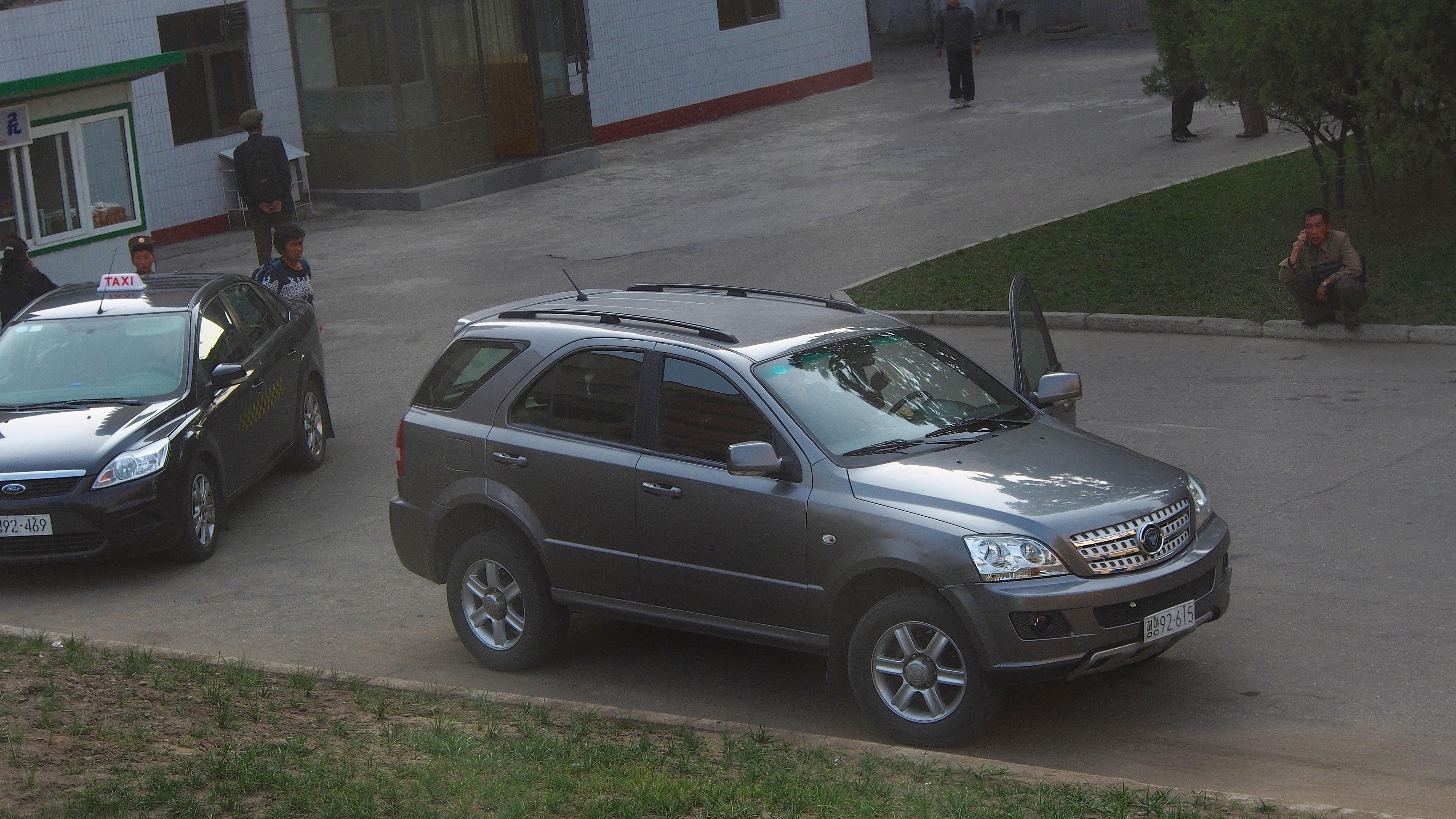 A North Korean Pyeonghwa Motors manufactured SUV. It sure looks a lot like a Kia Sorrento. Seen October 2013 Pyongyang DPRK.